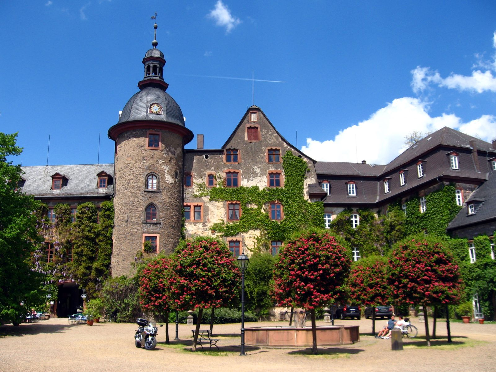 Germany / Hesse / Wetterau: Laubach chastle